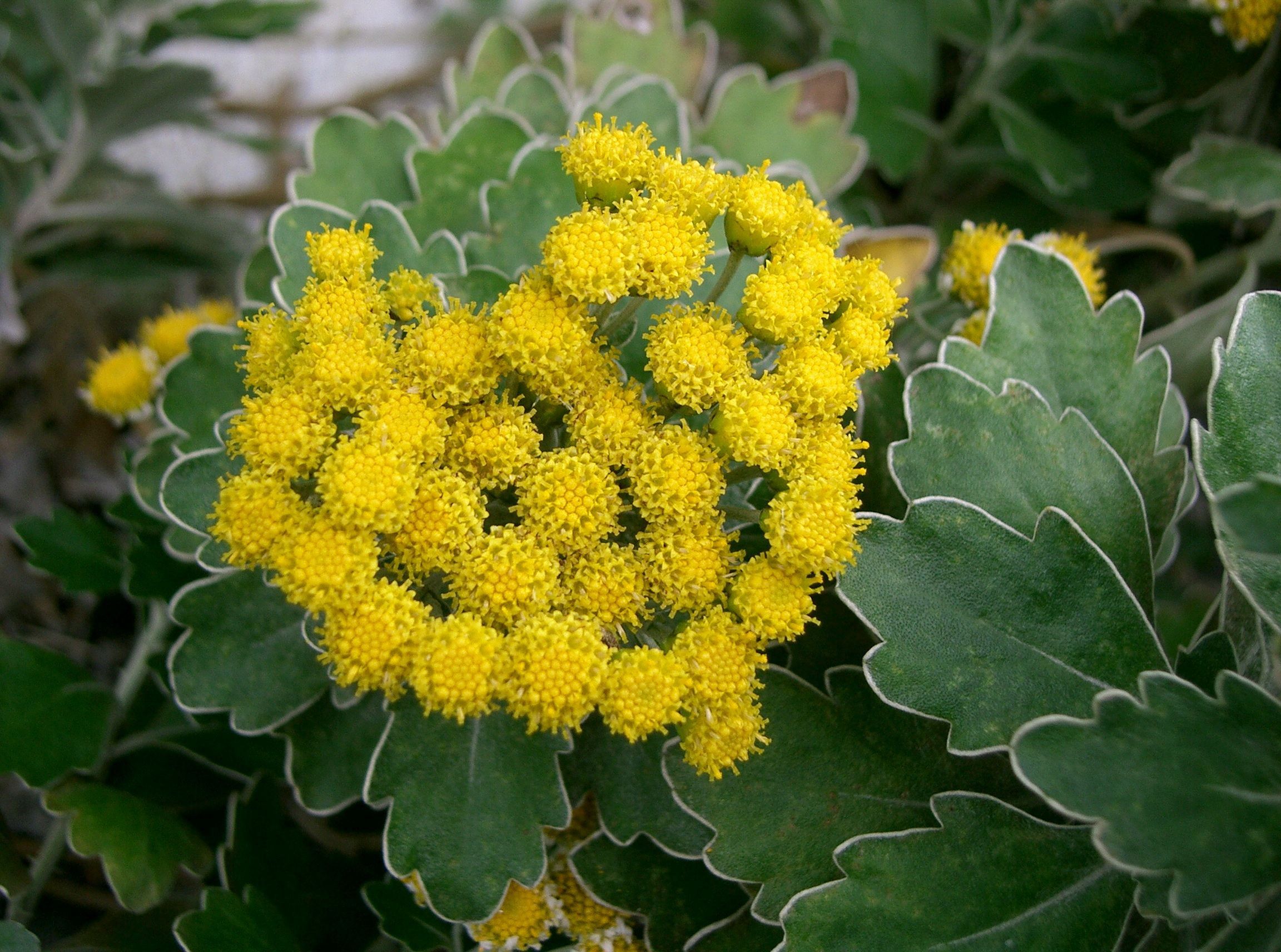 Chrysanthemum pacificum